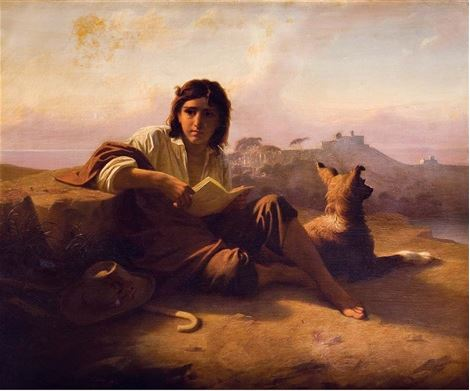 Pope Gregory as a Youth